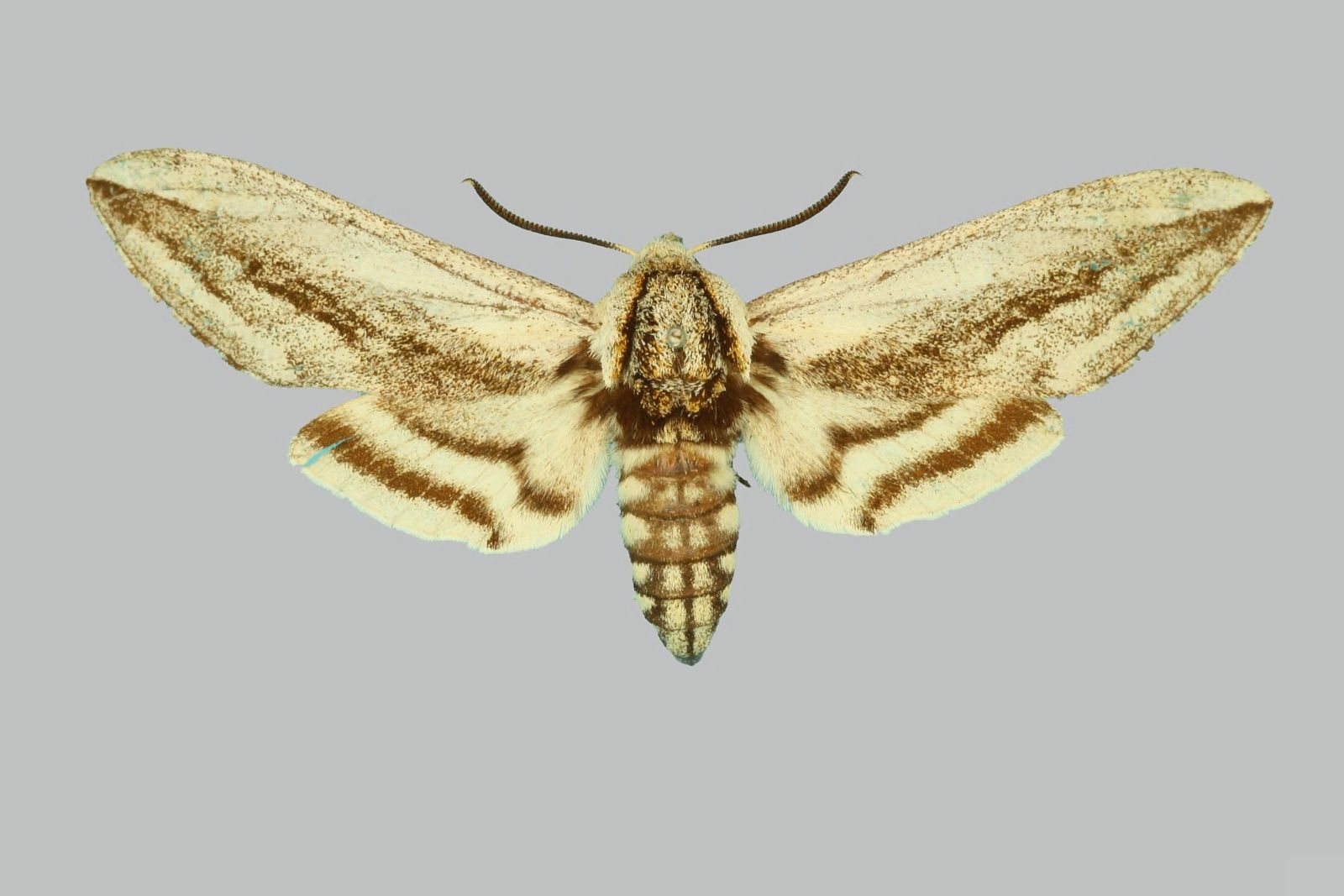 Sagenosoma elsa, female, upperside. United States, New Mexico